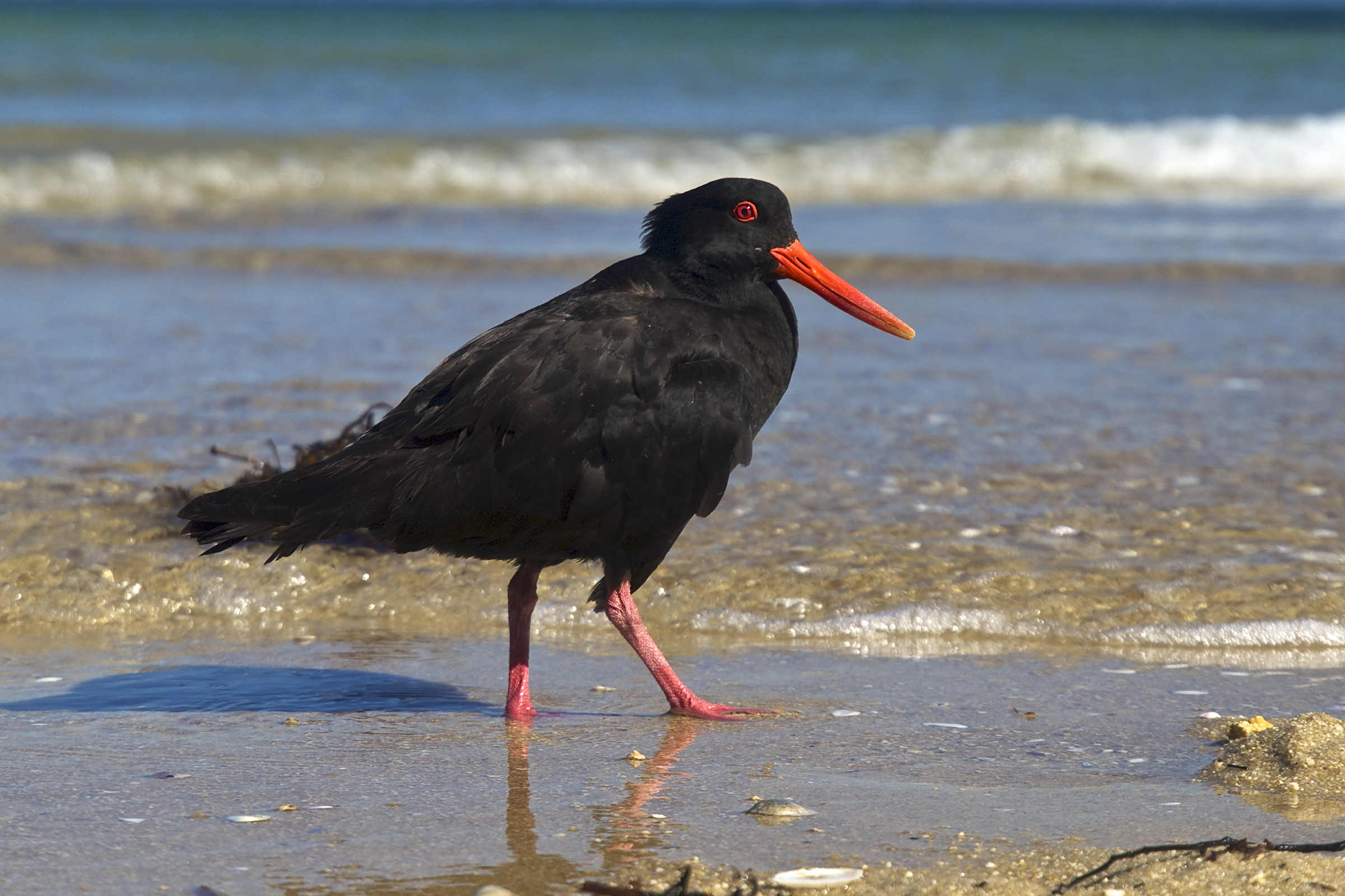 Variable Oystercatcher (Haematopus unicolor), Abel Tasman National Park, New Zealand